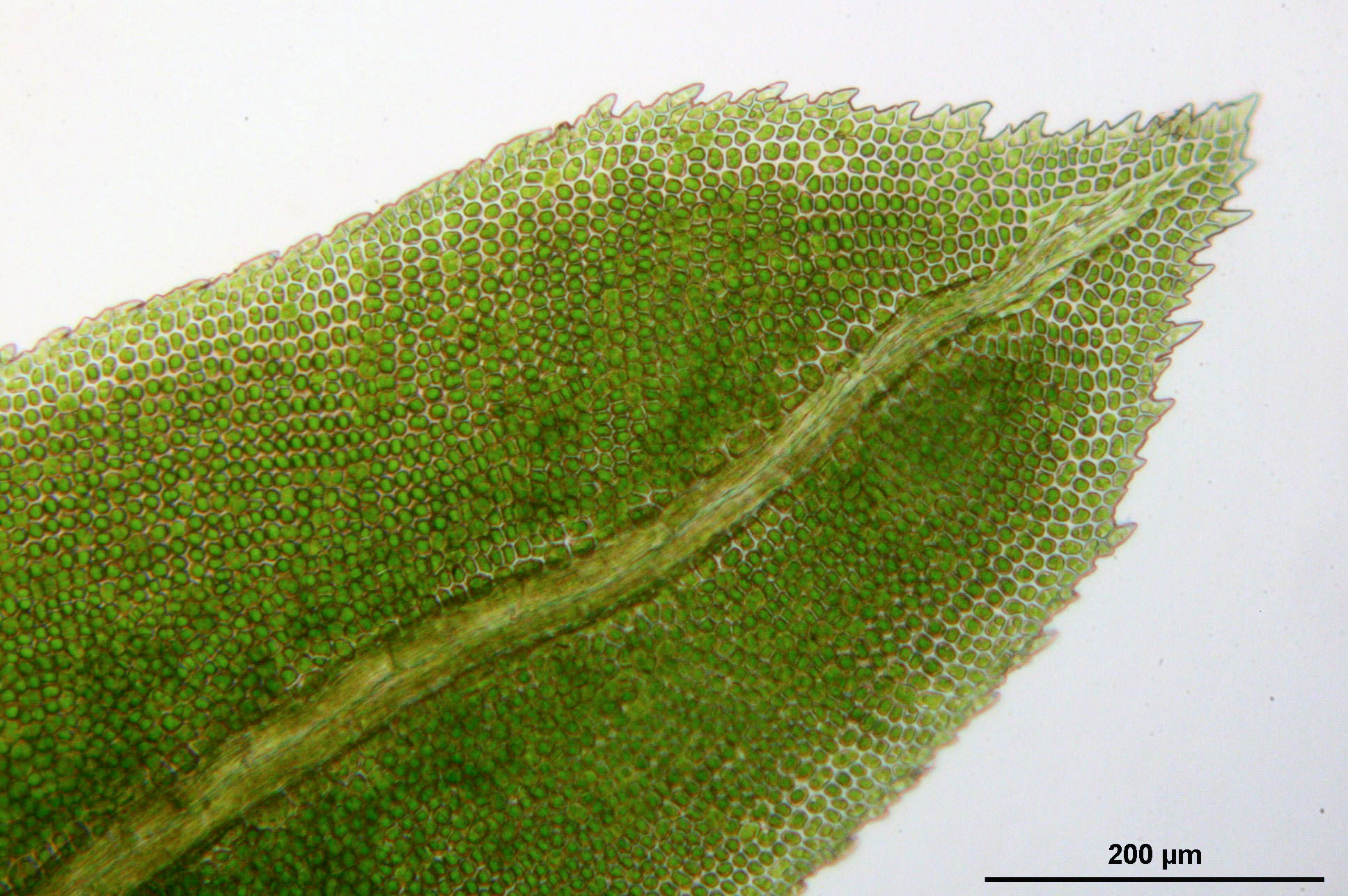 Fissidens dubius